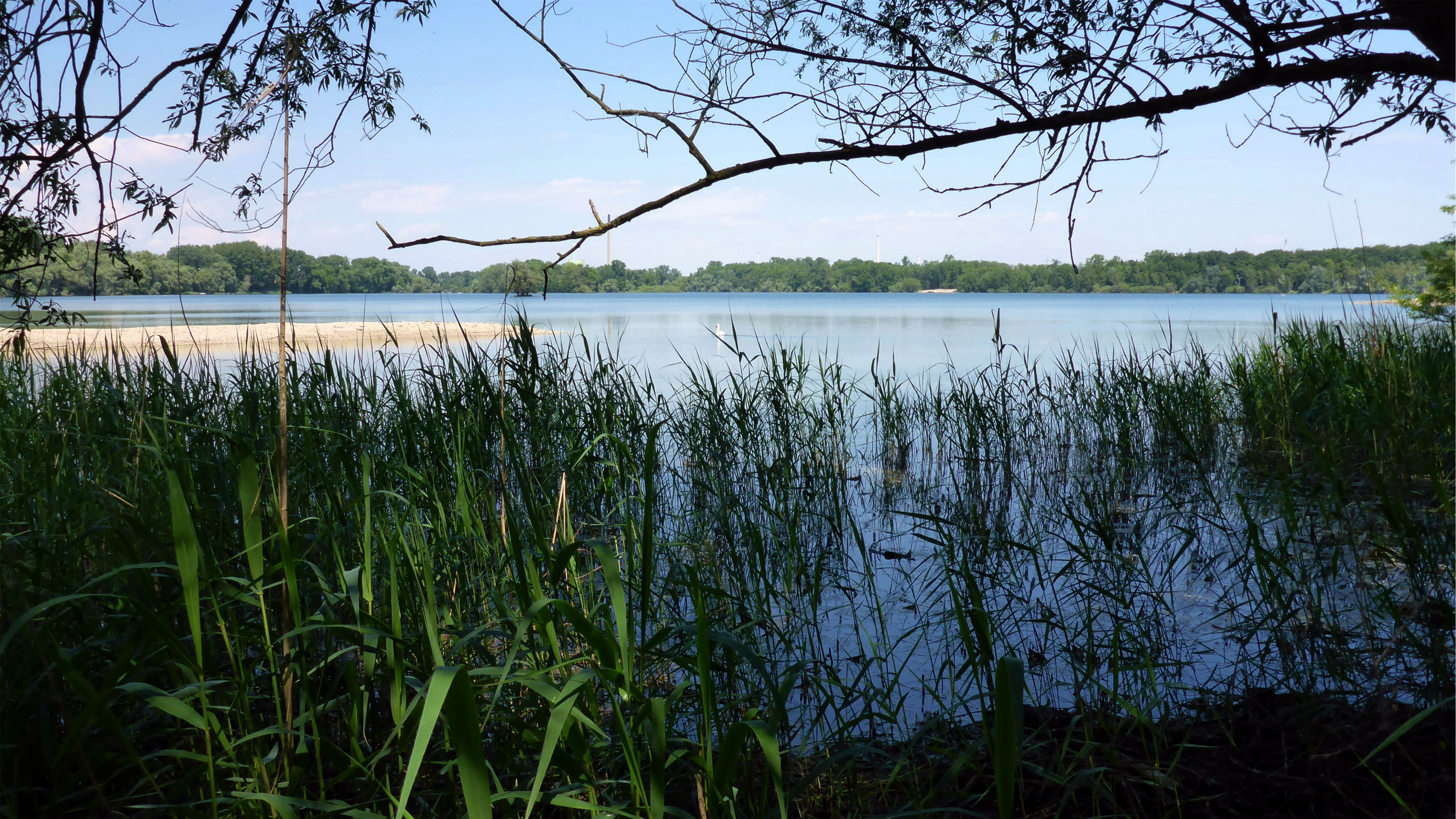 Naturschutzgebiet „Altrhein Maxau“ is a nature reserve in Baden-Württemberg, Germany.